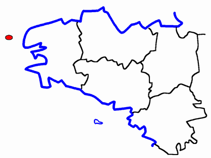 Description: Map for localisazion of cantons of Bretagne region in France Source: made by Hervé Tigier in april 2005 from another large map (published in 1990)